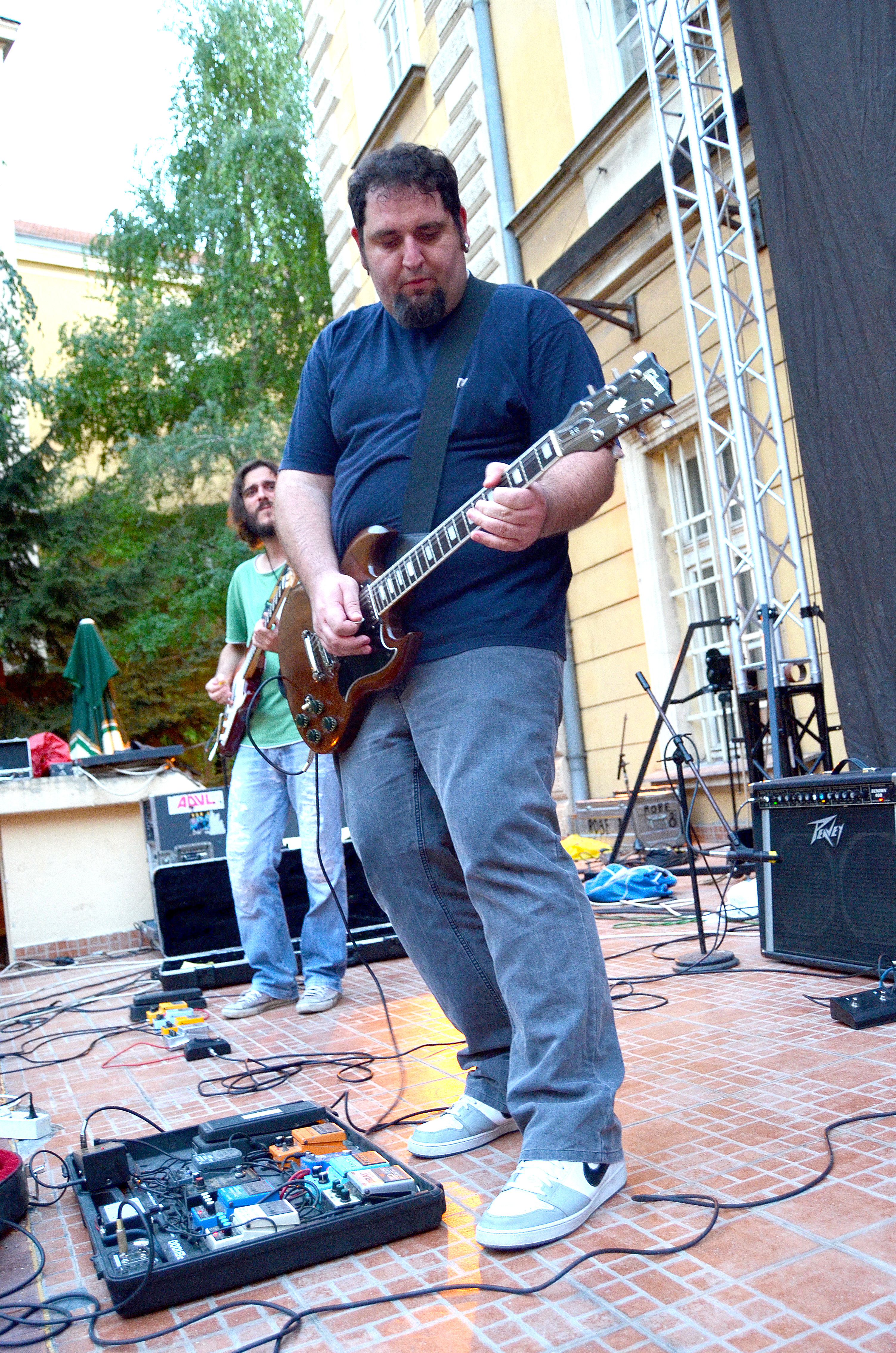 Bjesovi guitar player Dragan Arsić Tilt in Niš